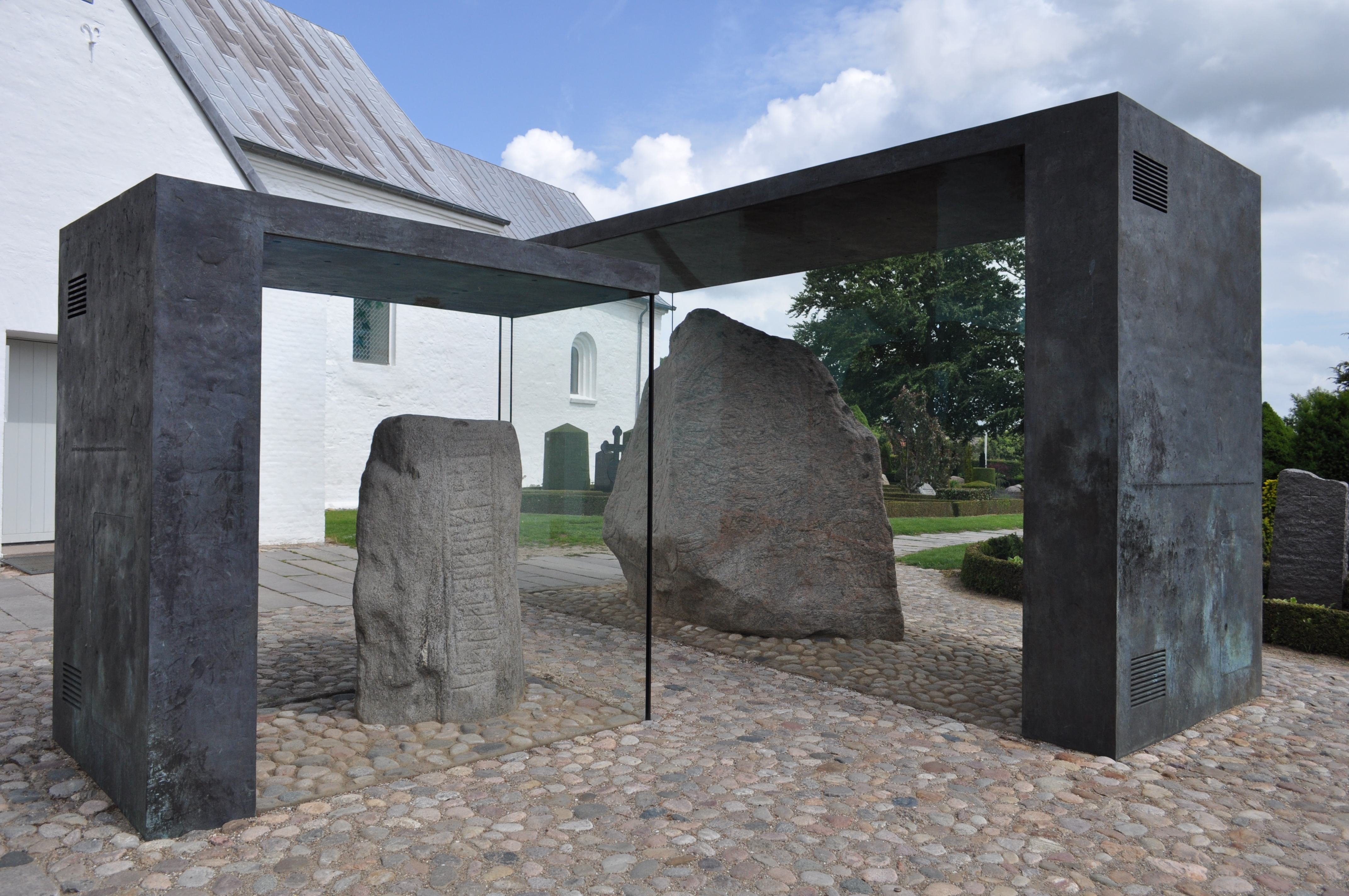 Jelling rune stones.